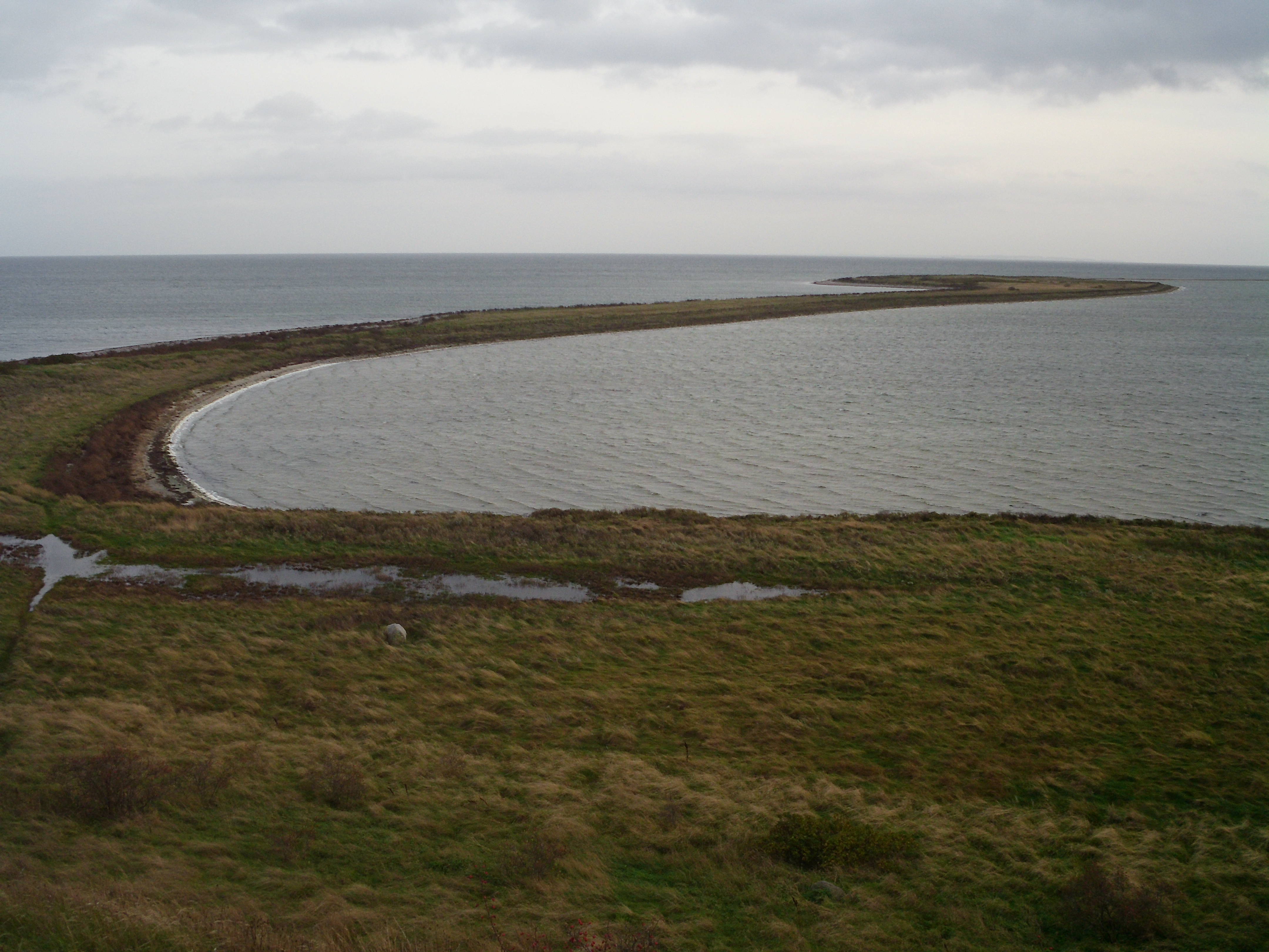 A view of the Besser Rev, an isthmus of the island of w: in Denmark, looking from a "Skanse" ("fortress") hill close to the end. The nearby part is wide and overgrown by grass. The narrow gravel passage to the coast continues at the far right (and is slightly visible in the picture as well).